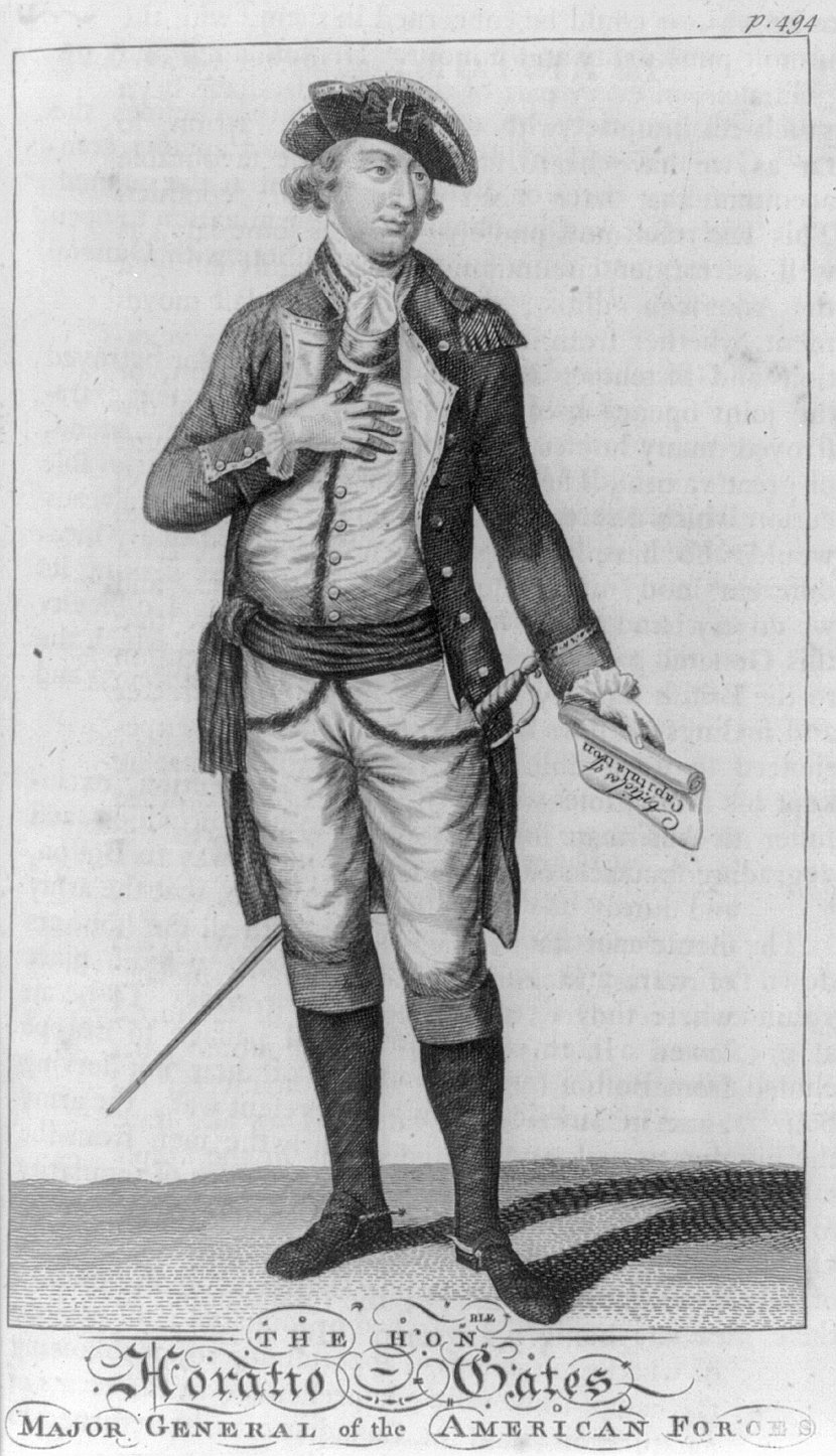 The honble. Horatio Gates, major general of the American forces. Engraving shows General Horatio Gates, full-length portrait, standing, wearing uniform, facing slightly right, holding scroll labeled "Articles of Capitulation."